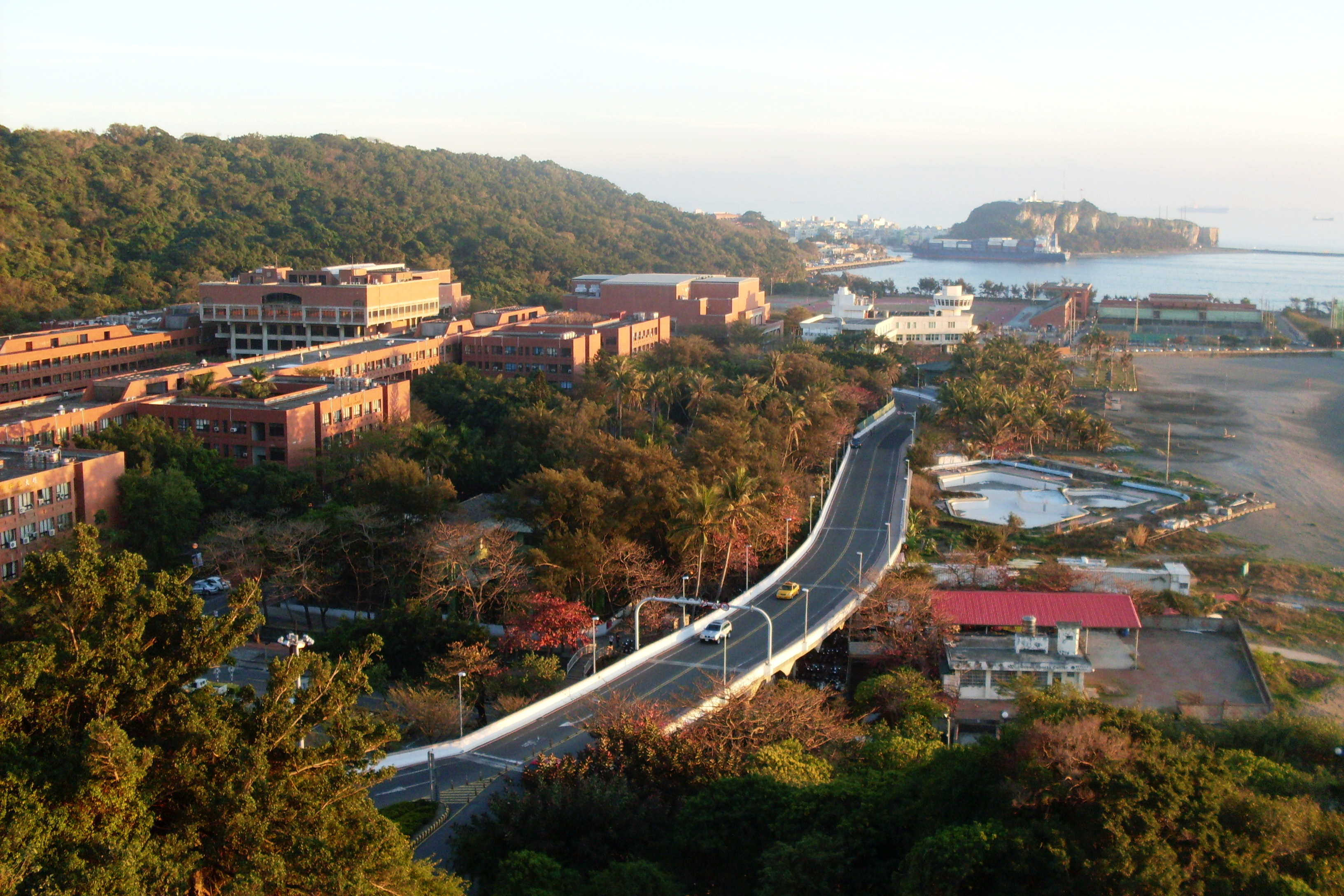 National Sun Yat-sen University